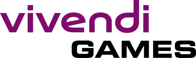 Company logo for Vivendi Games.